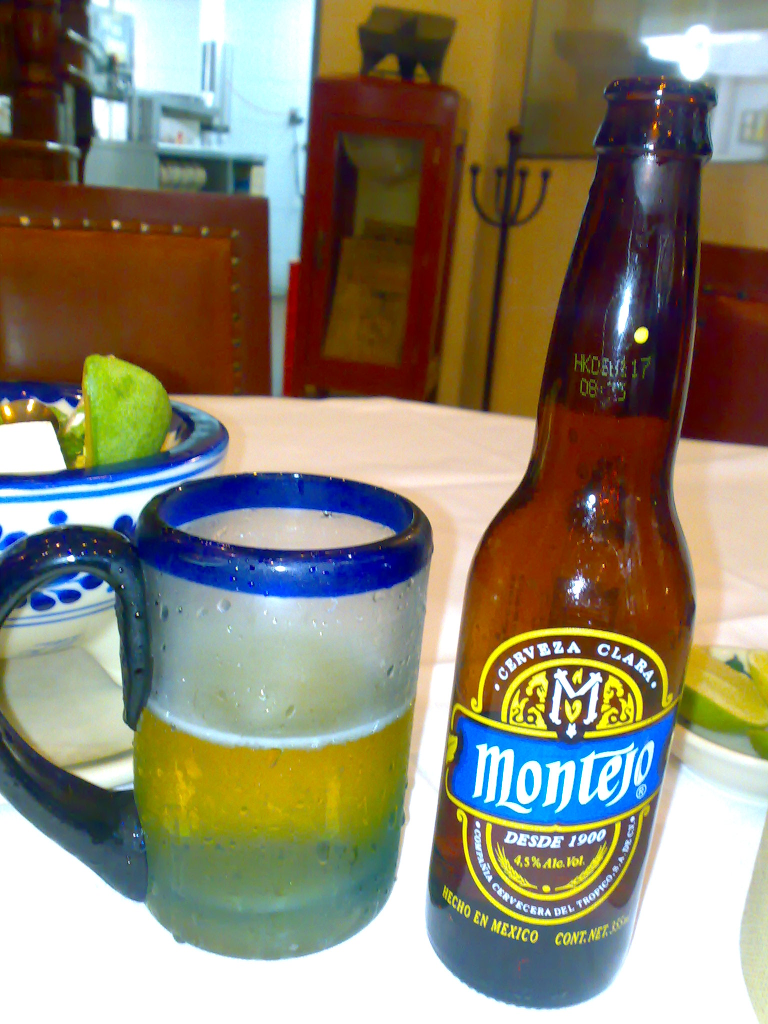 Montejo beer. Picture taken by me.